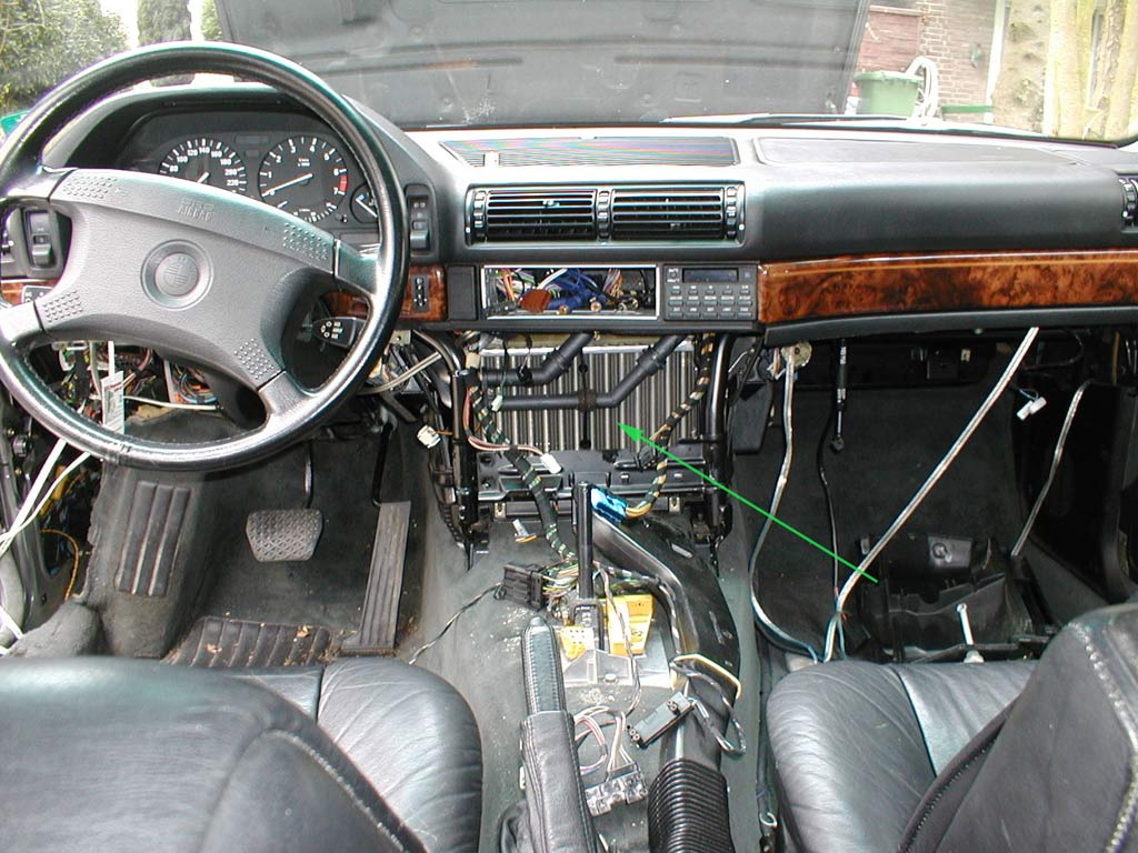 Picture illustrating location of heater core in a BMW E32. Own work, released to PD.